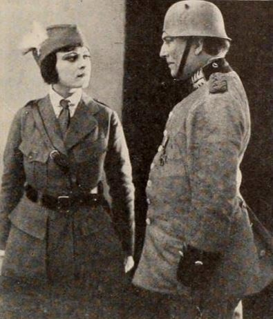 Still from the American comedy film The Common Cause (1919) with Sylvia Breamer and Louis Dean (1874 – 1933), on page 55 of the September 7, 1918 Exhibitors Herald.